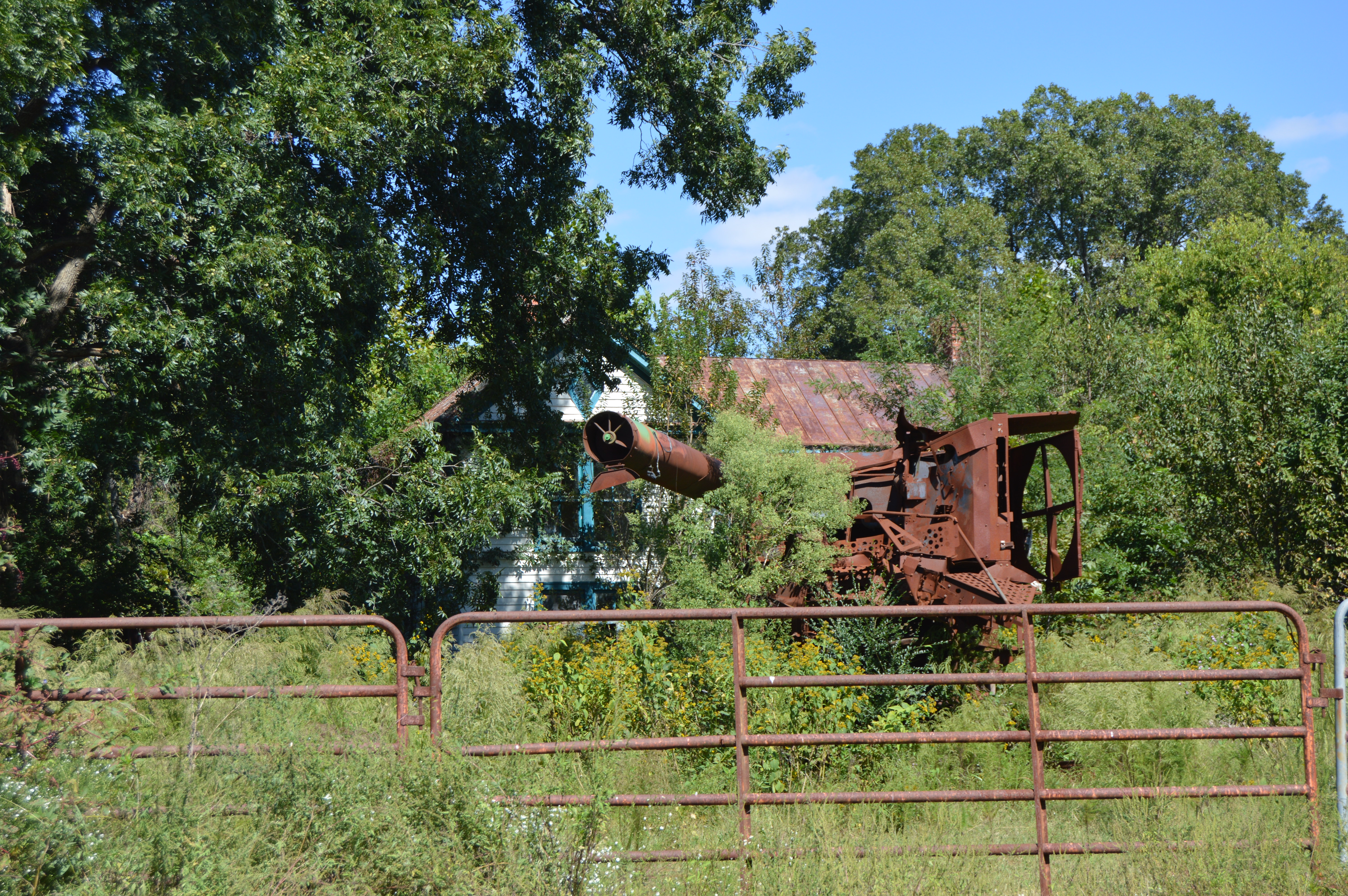 Roadside view of the office building at Rich Neck Farm, located on Chippokes Farm Road northwest of Bacon's Castle in Surry County, Virginia, United States. Together with the rest of the farmstead (much of which is now destroyed), it is listed on the National Register of Historic Places.